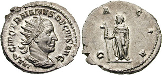 Traianus Decius. 249-251 AD. AR Antoninianus (4.99 g). IMP C M Q TRAIANVS DECIVS AVG, radiate, draped, and cuirassed bust right D-ACIA, Dacia standing left, holding vertical staff with ass's head. RIC IV 12b; Hunter 7; RSC 16. EF.